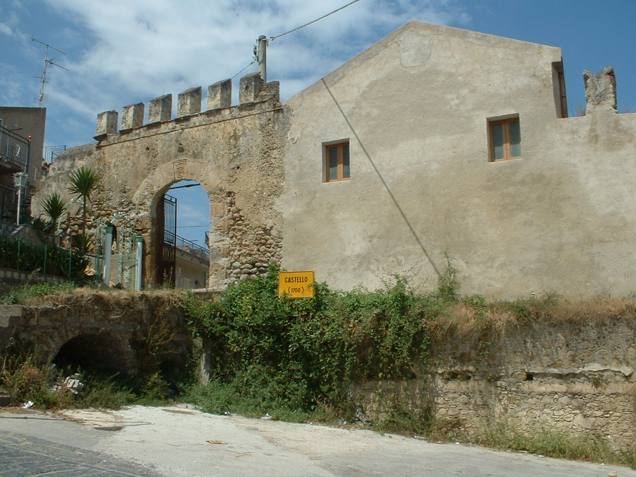 Portal of Acquedolci castle (1700).